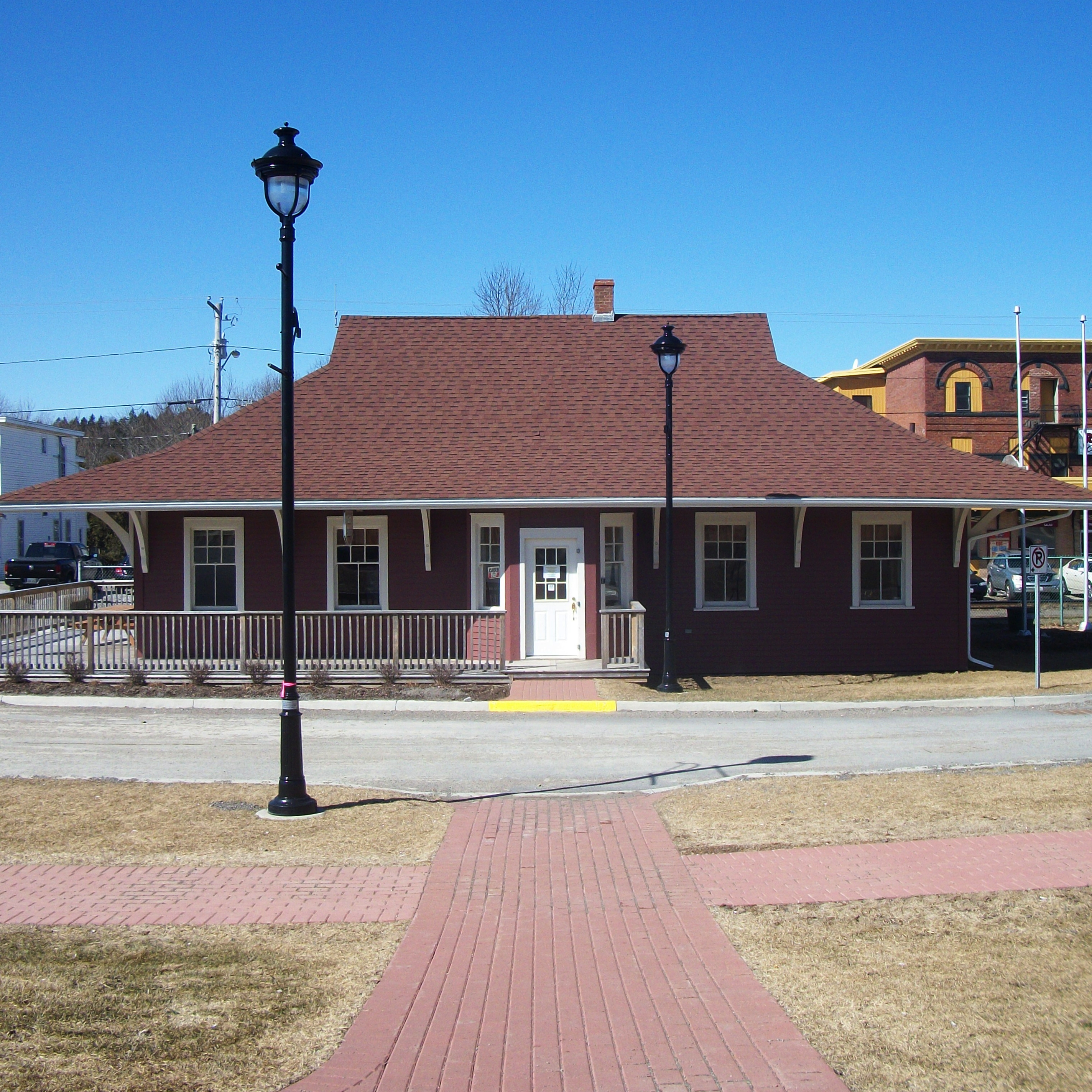 Former train station in Hampton NB